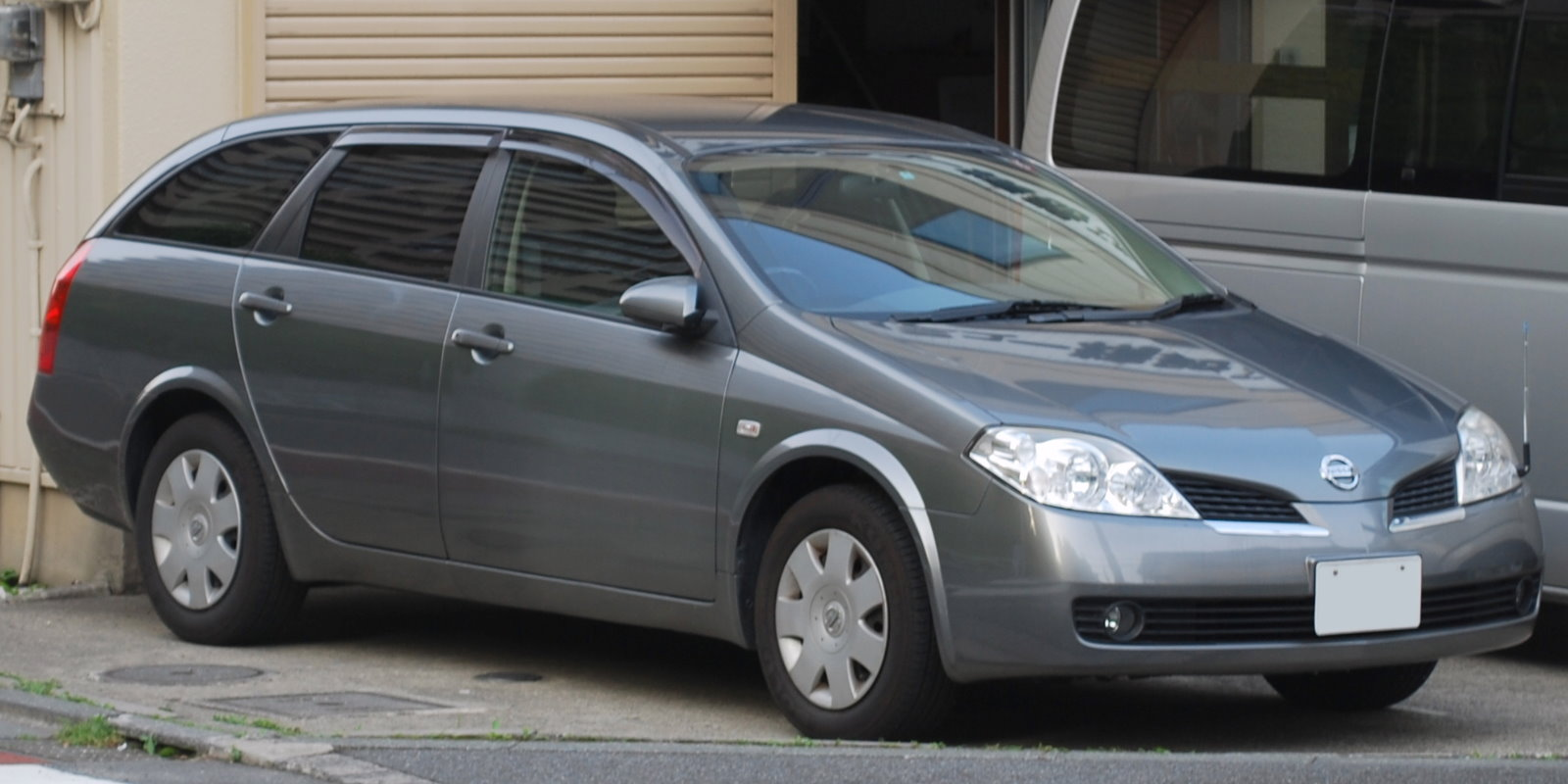 3rd generation Nissan Primera (2003/7 - 2005/11)